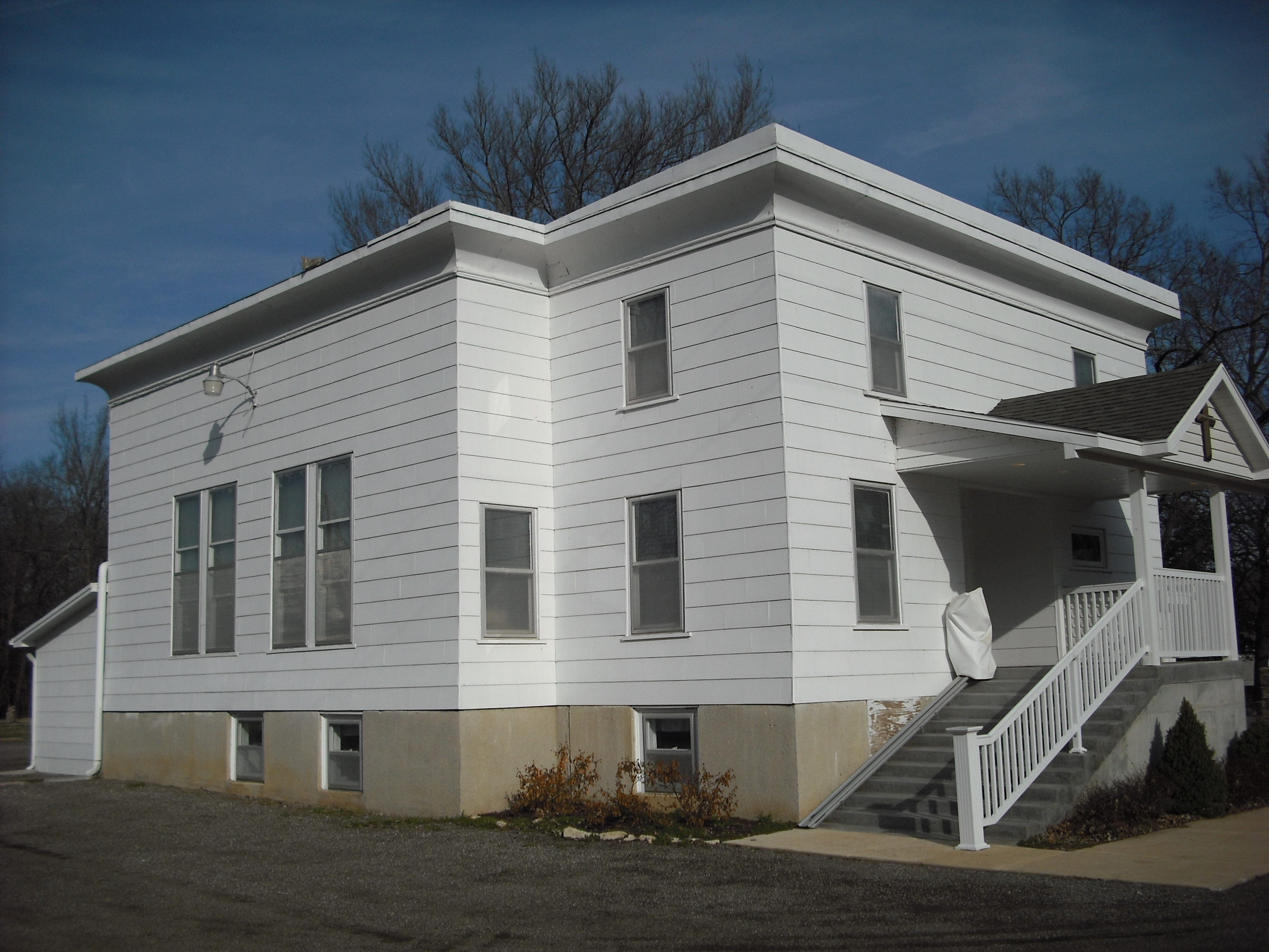 The Lone Star Church of the Brethren in Lone Star, Kansas near Lone Star Lake.